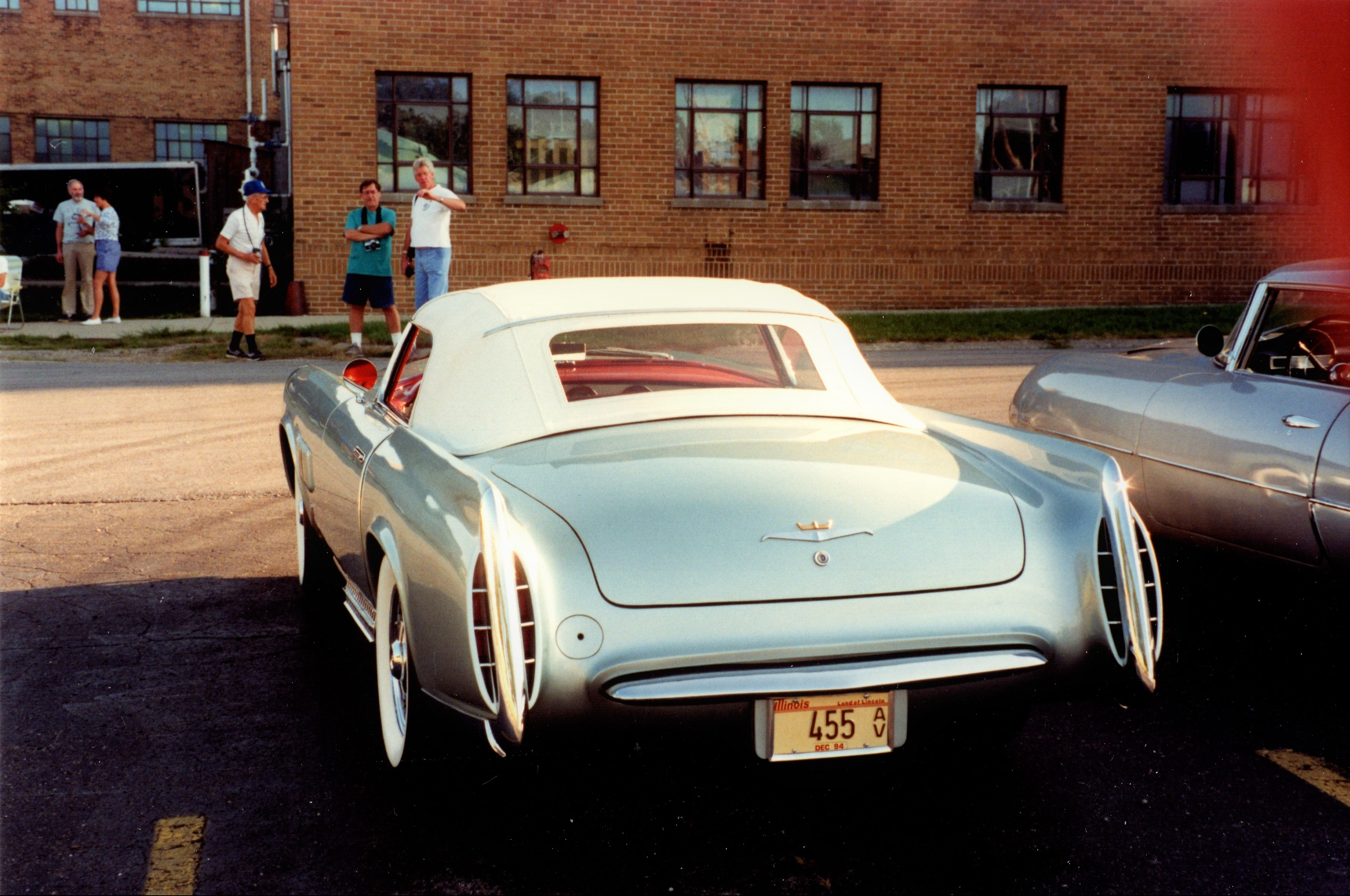 1955 Chrysler Falcon concept rear view